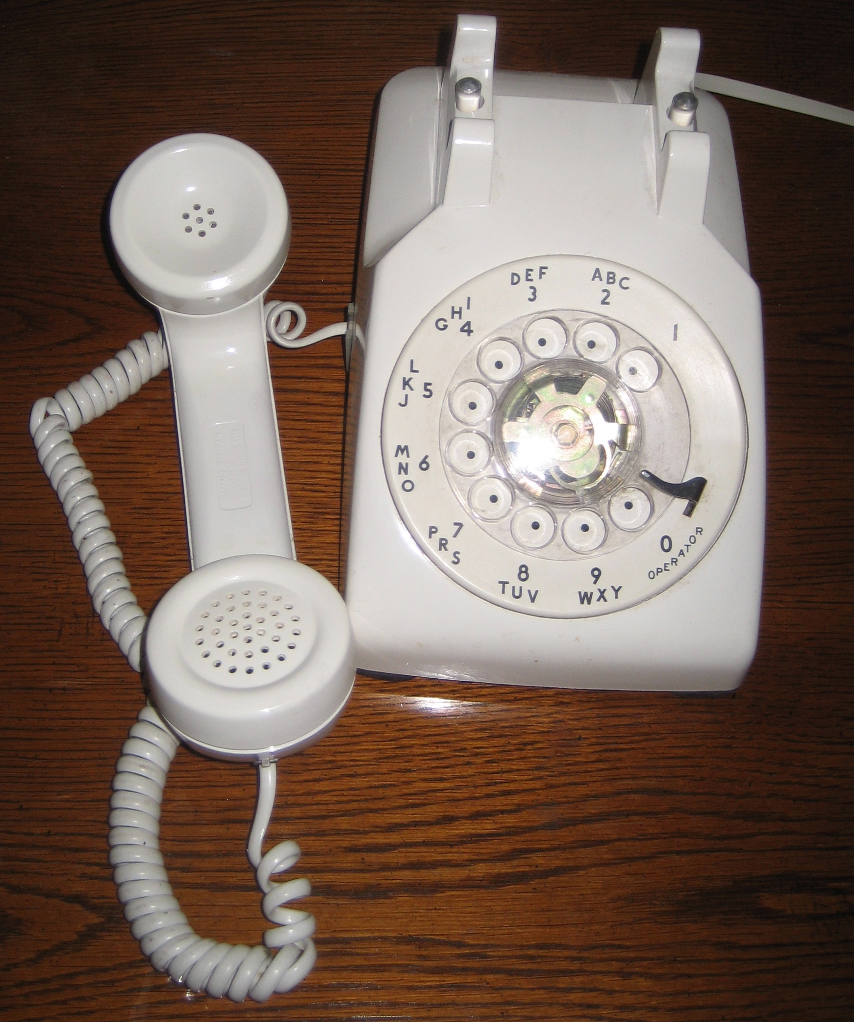 Standard USA table telephone, c. 1950s, with rotary dial (standard at the time before the pushbuttons came in c. late 1960s). Model made by Western Electric for Bell Telephone/ATT US domestic telephone monopoly. These originally could not be sold; they were rented as part of Bell telephone service. Obsolete but built to last indefinitely. Another view of the same phone: Image:BellWesternElectricRotaryPhoneA.jpg